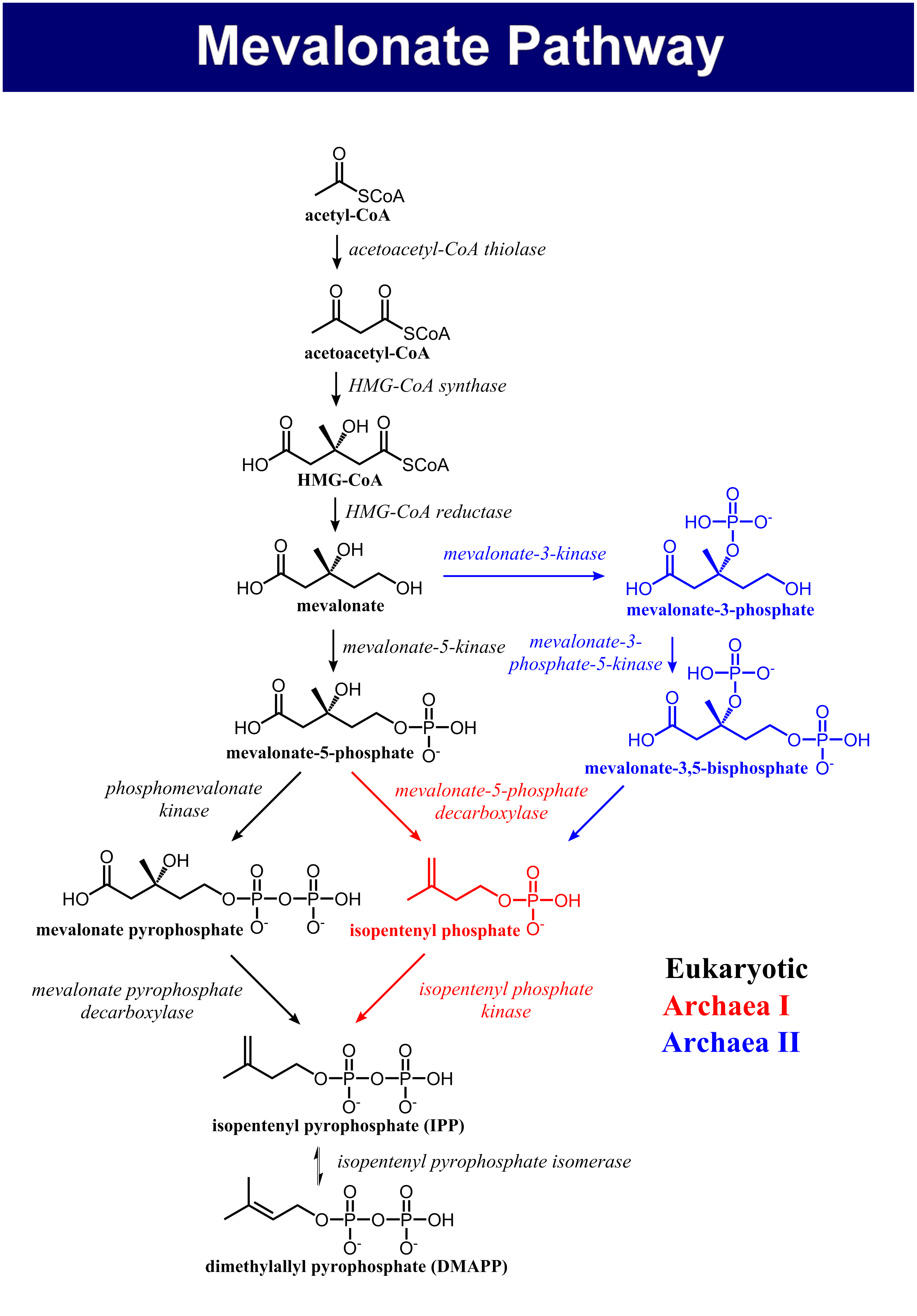 Mevalonate Pathway Wiki Page